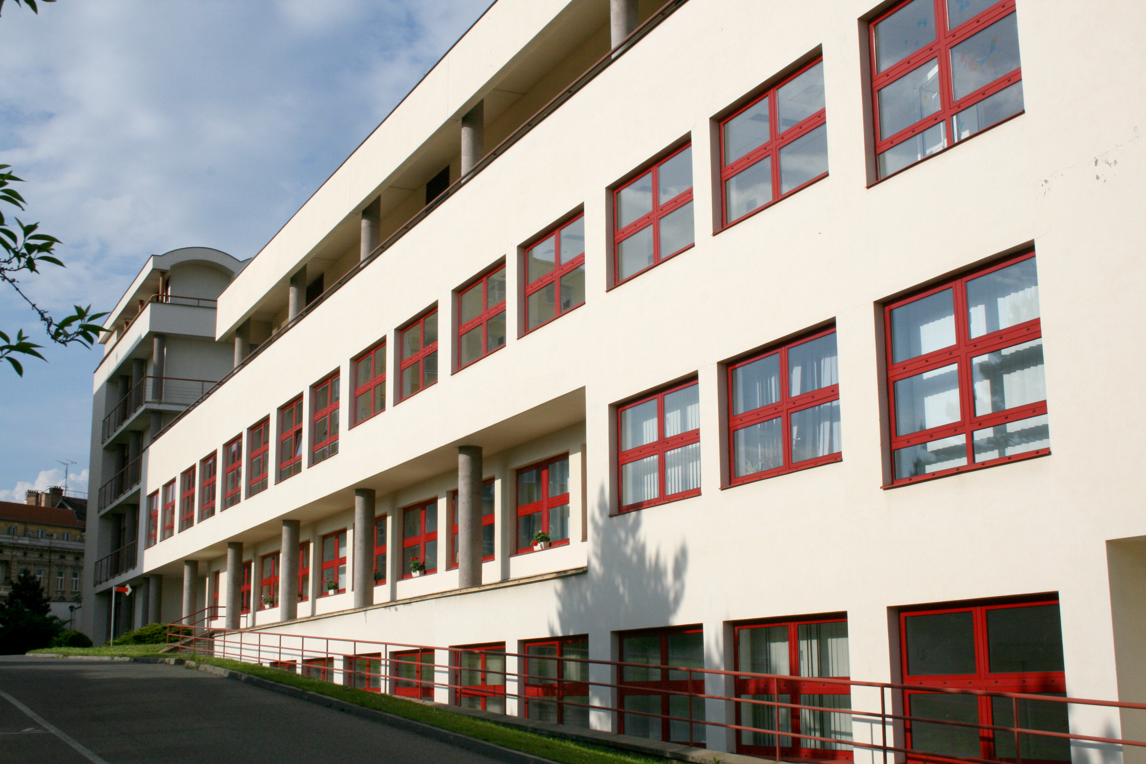 Children hospital, Černopolní street, Brno. Pavilion F.